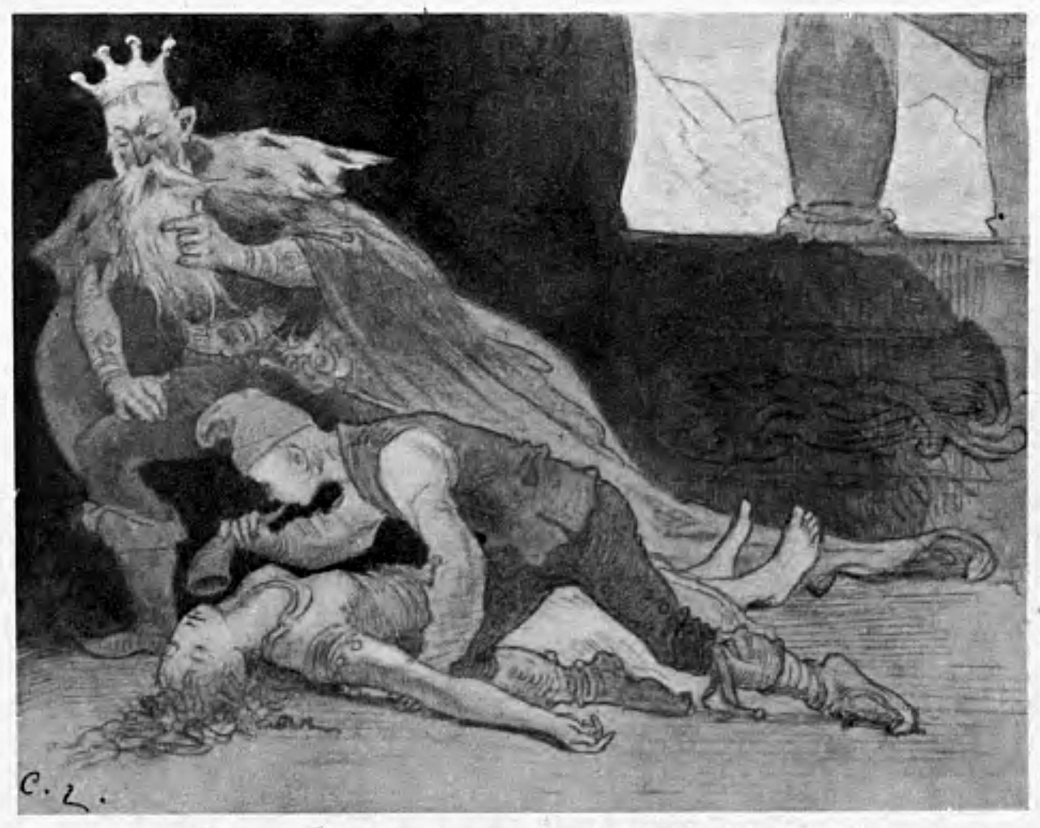 Illustration by Carl Larsson of the book "Folksagor" by Asbjörnsen and Moe, Stockholm 1927